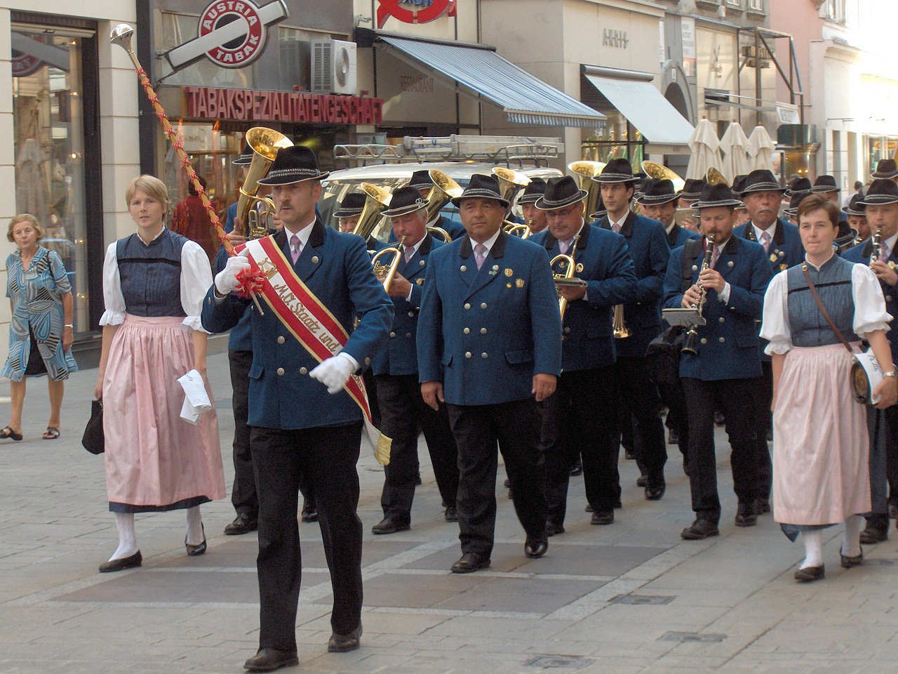 Marching band parading in Vienna, Austria